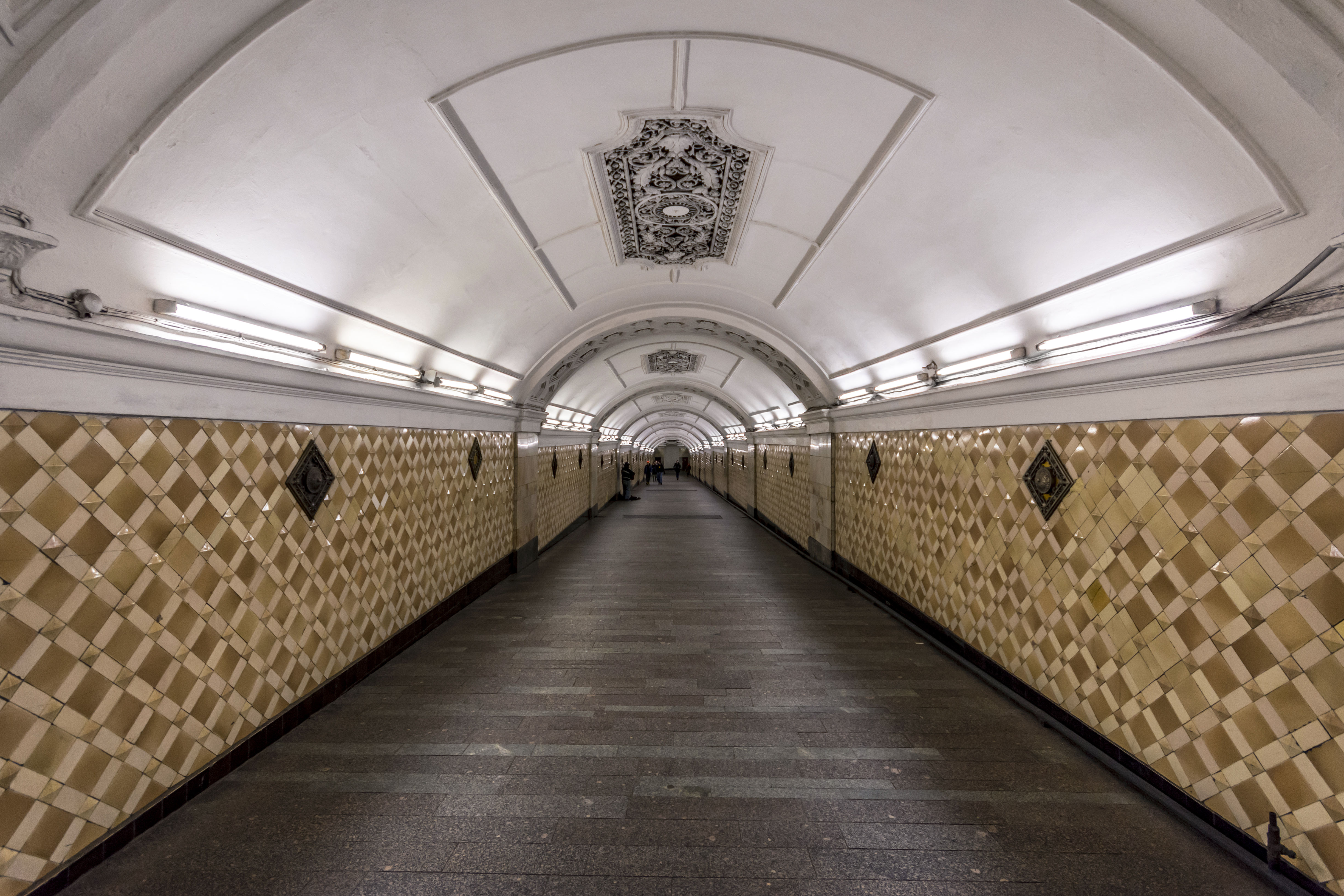 Transitional Corridor between Ploshchad Revolyutsii and Teatralnaya Stations of Moscow Subway